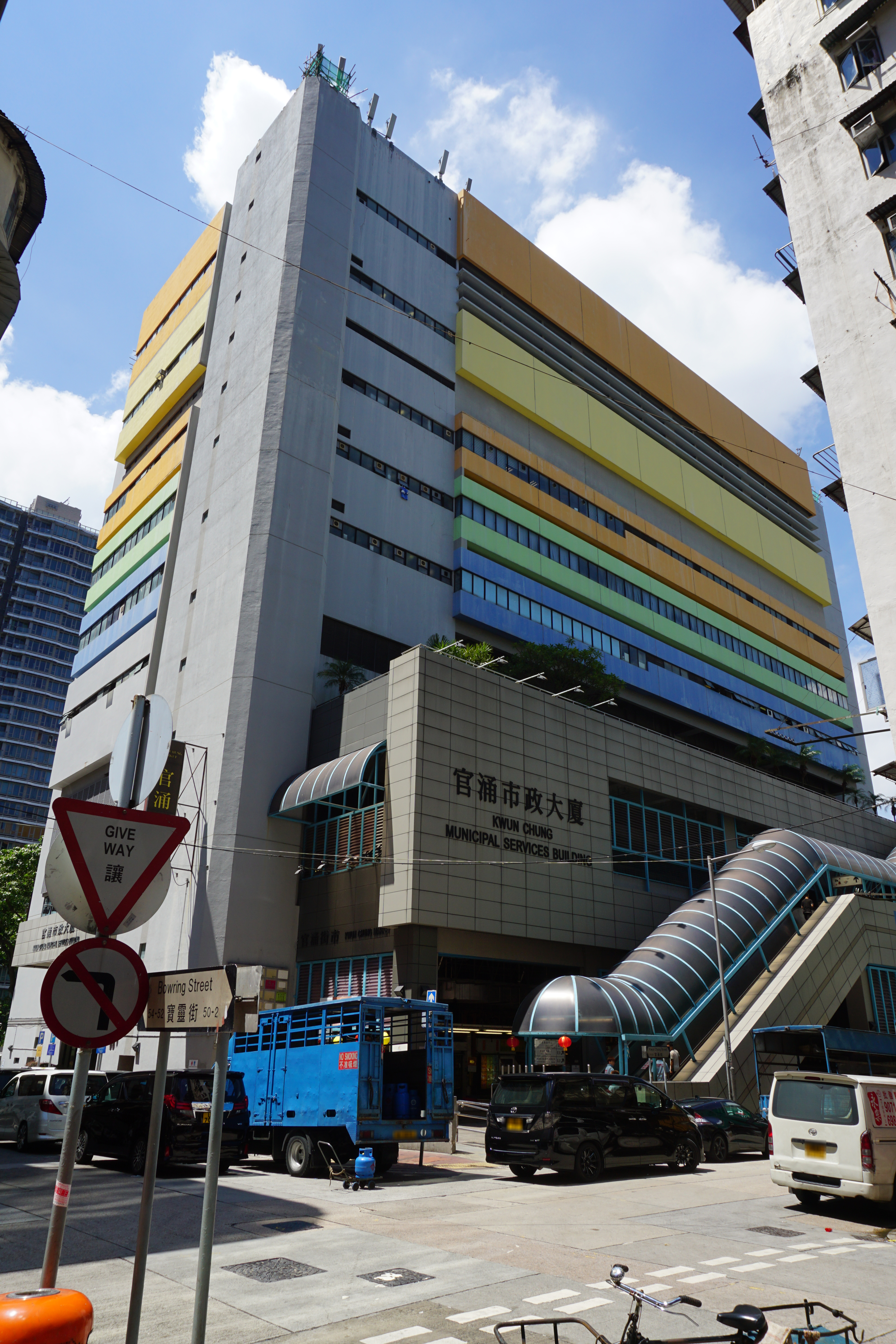 Kwun Chung Municipal Services Building in Jordan, Hong Kong.